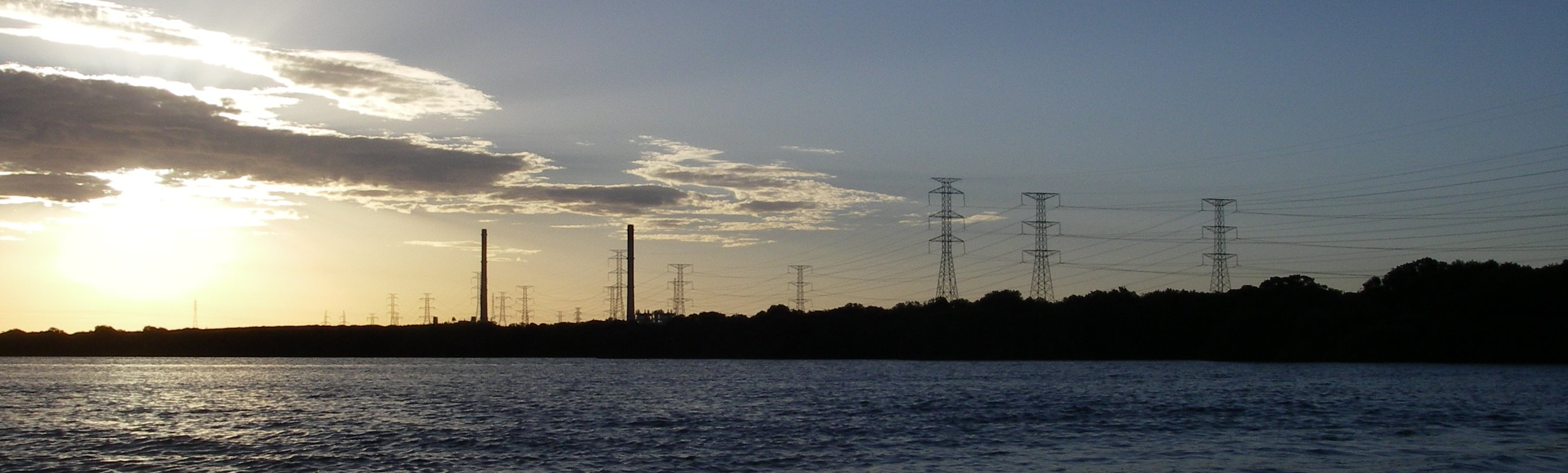 Panoramic photograph of Torrens Island Power Station and transmission lines silhouetted against a sunset. Taken from the junction of North Arm Creek and Barker Inlet.